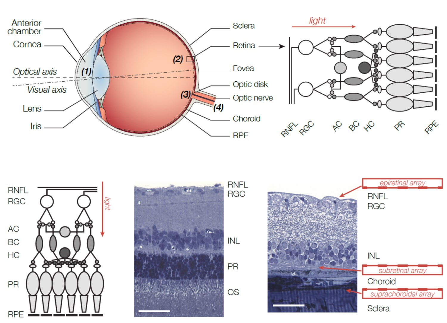 Top left: diagram of an eye; Top right: diagram of the retinal layers from bottom to top: Retinal Pigment Epithelium (RPE), photoreceptors (PR); horizontal cells (HC), bipolar cells (BC), amacrine cells (AC), retinal ganglion cells (RGC), nerve fiber layer (RNFL).